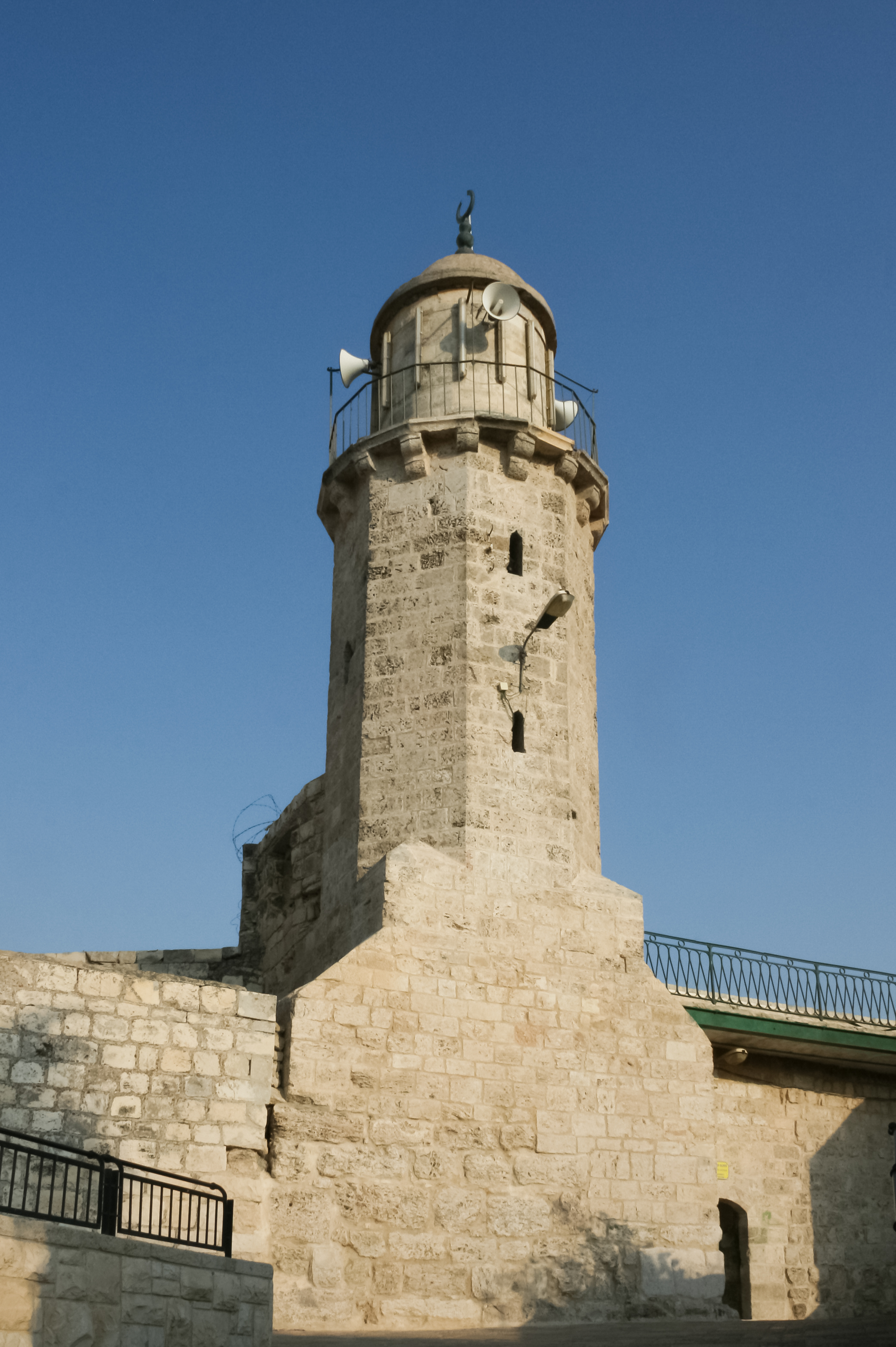 Chapel of the Ascension, Mount of Oliver, Jerusalem